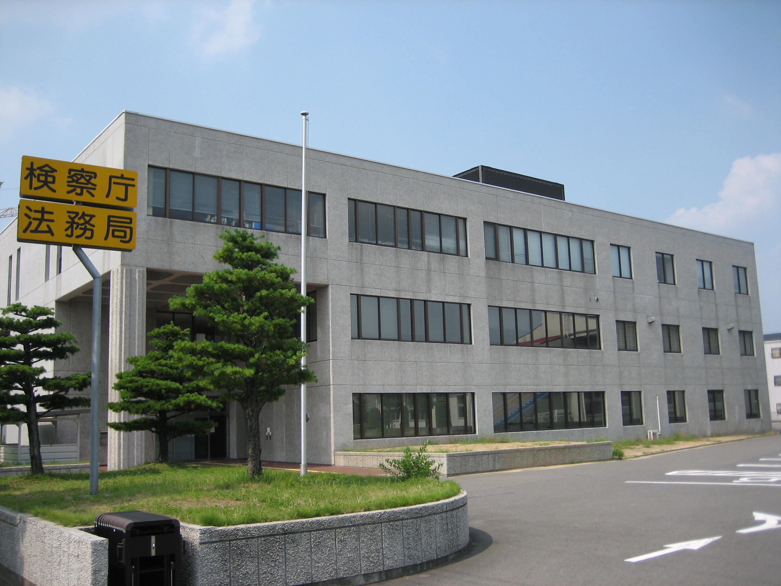 Ichinomiya Branch of Nagoya District Public Prosecutor's Office(名古屋地方検察庁一宮支部), located in Ichinomiya, Aichi, Japan